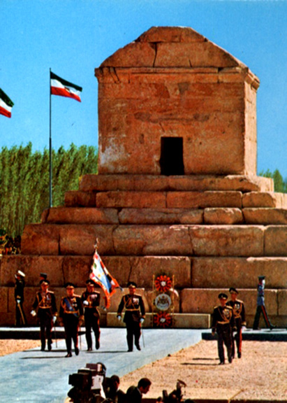 Part of the 2.500 years ceremonies at the tomb of Cyrus the Great.